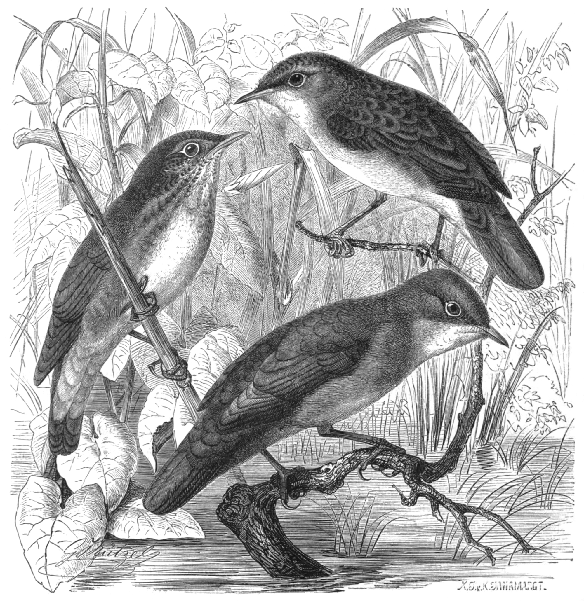 Grasshopper Warbler (Locustella naevia), River Warbler (Locustella fluviatilis) and Savi's Warbler (Locustella luscinioides). Illustration by Gustav Mützel from Brehms Tierleben (English title: Brehm's Life of Animals). Description under the picture reads: Feld=, Schlag= und Rohrschwirl (Locustella naevia, fluviatilis und luscinioides). ⅔ natürl. Größe.